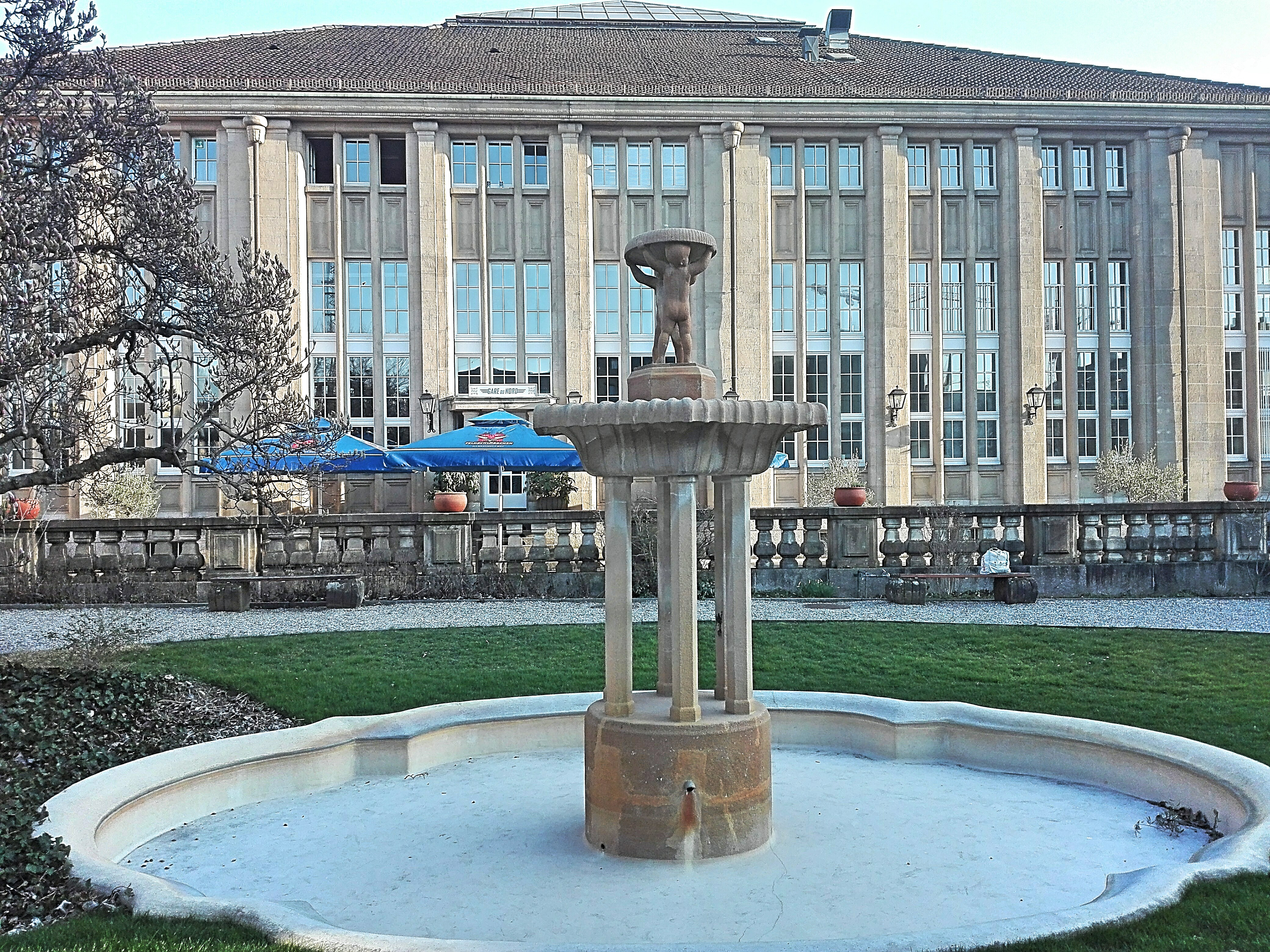 Gare du Nord